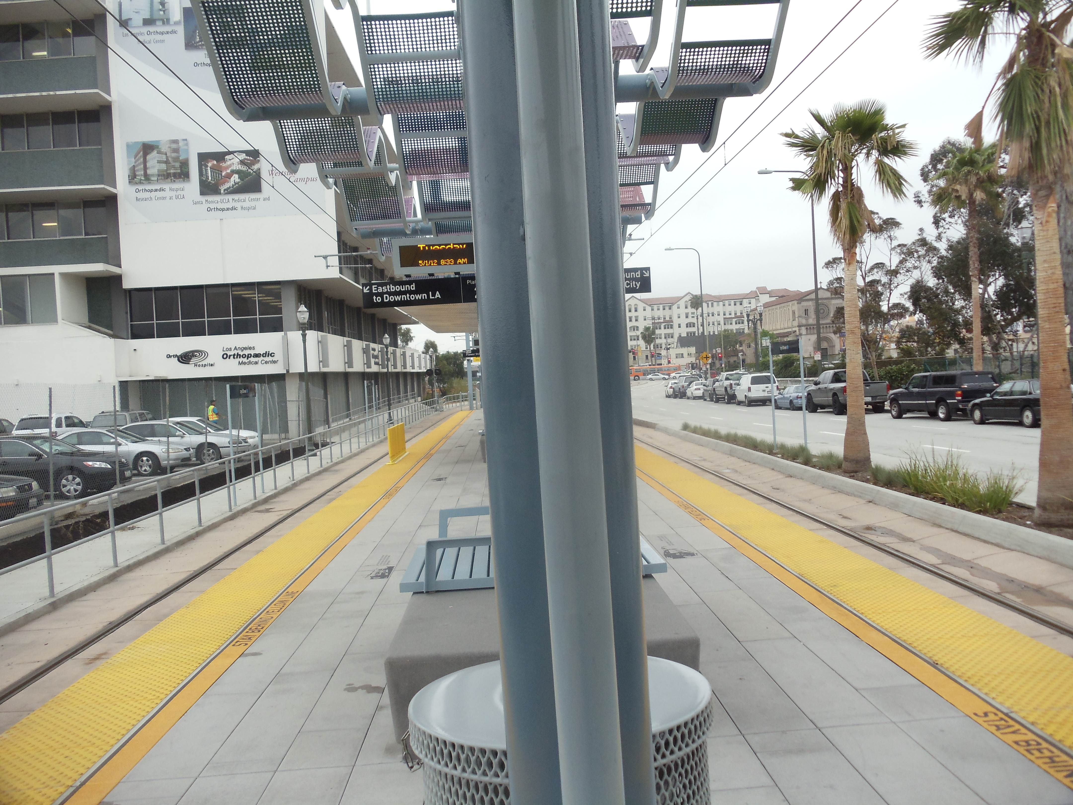 Station platforms.